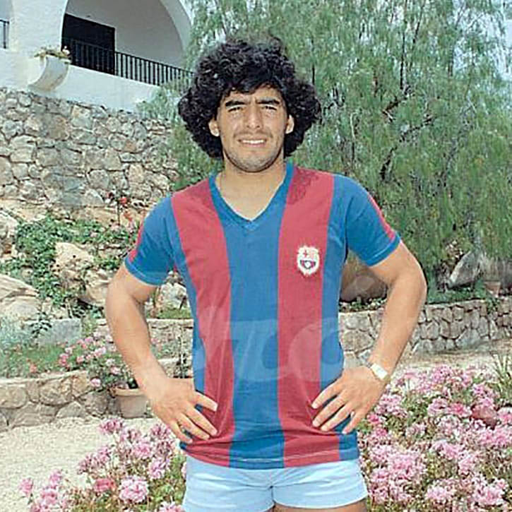 Diego Maradona with the Barcelona jersey after being transferred to that club.